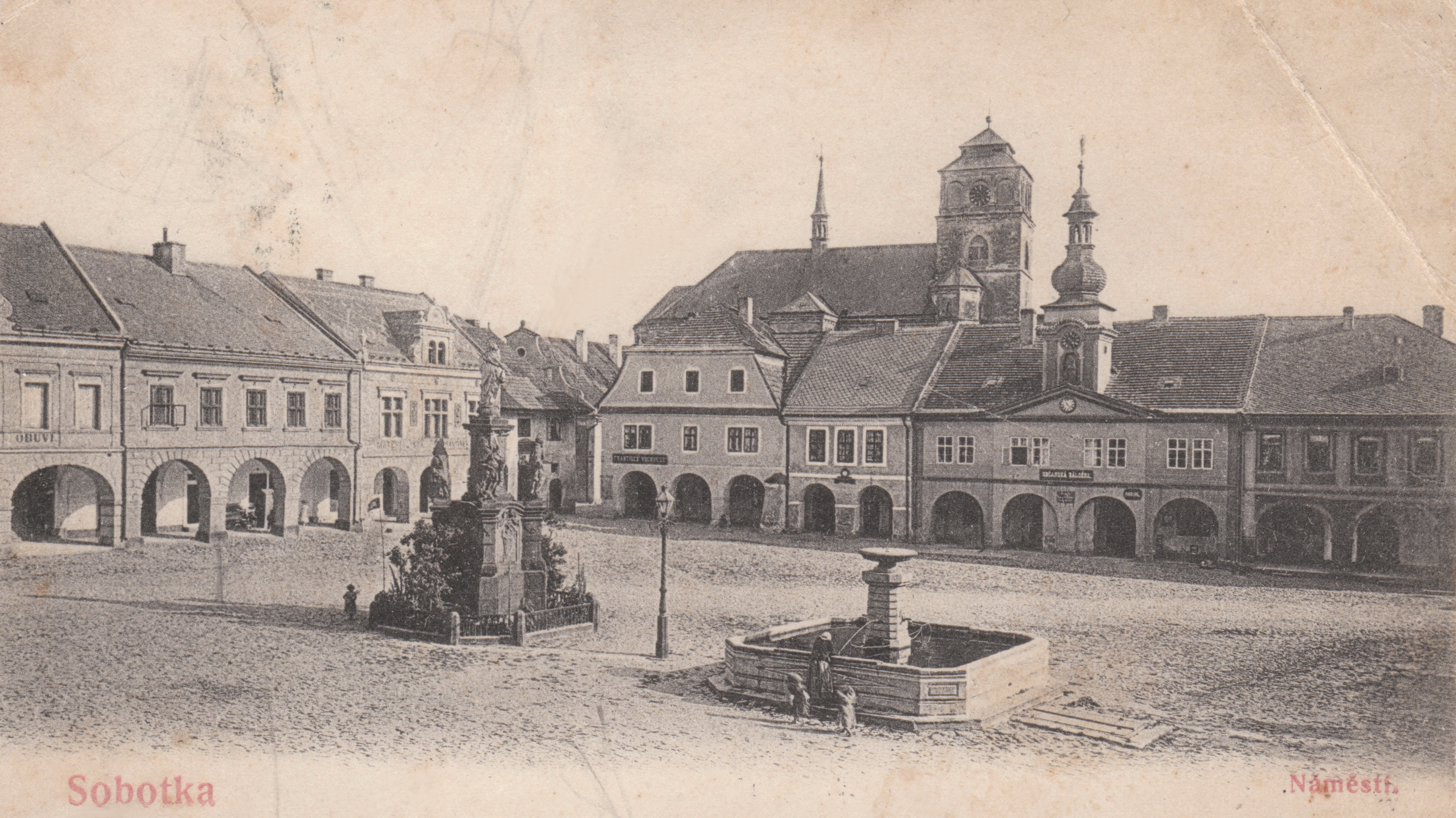 Sobotka, Town square, before 1914